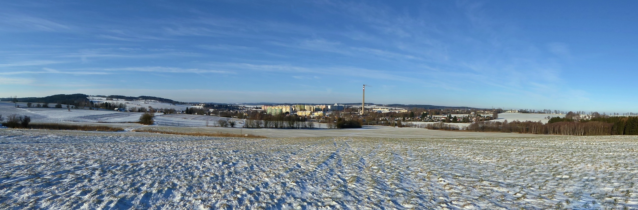 The town of Hlinsko, a panoramic view from the locality "K Pláňavům" (620 m) on the northwest slope of "Pešava" (697 m). With sufficient snow cover, the site is used for classic skiing. In the summer months, it is wet meadows, in the sloping terrain with the location "In Dolce", from where the water is drawn into the "Blatenský" stream. In the picture a distinct valley with trees and of brook "Blatenský", in the photo from the right edge of the image towards its center, above the brook of garden colony and huts. Geographically, the site is part of the Kameničská Highlands, the geomorphological district of the Iron Mountains. The locality is a specially protected area, part of Protected Landscape Area Žďárské vrchy, to the right of the forest lies the European significant site and the natural monument "Ratajské" ponds. From the city center the tourist route of the Club of Czech Tourists is brought to locality "Ratajské" ponds, is marked in yellow. In the middle of the picture of the urban settlement and heating plant with chimney (116 m), to the right the industrial object (ETA, MEGATECH). To the left of the housing estate is the older town, above it on the horizon the peak "Vestec" "668 m) in of Protected Landscape Area Železné hory. In left on the horizon, the wooded peak "K lázním" (679 m) over "Svatojanské" Spas (urban area of the town), to the right of it trigonometric point "U lázní" (655 m) and the hill with name "Na skalce" (637 m) at the level of urn grove with the statue of Master Jan Hus. In left below the hills the River Chrudimka flows in the valley, in part of town with name "Blatno" and with the road No. 343 in the section Hlinsko - village Jeníkov. Photo location: Czechia, Pardubice Region, town Hlinsko, geomorphological district "Kameničská" Highlands, the Iron Mountains.